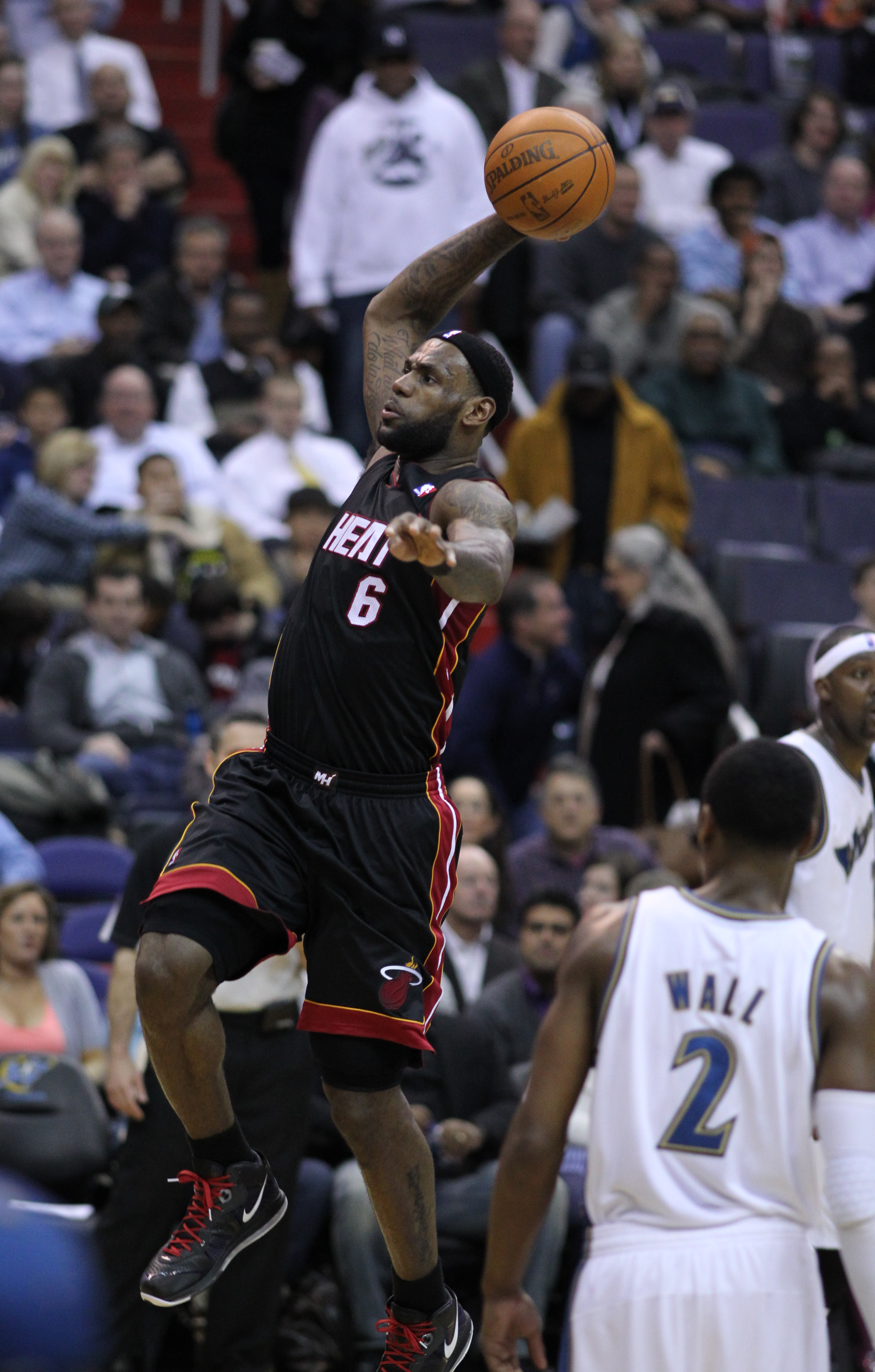 Lebron James: Dunking Washington Wizards v/s Miami Heat March 30, 2011